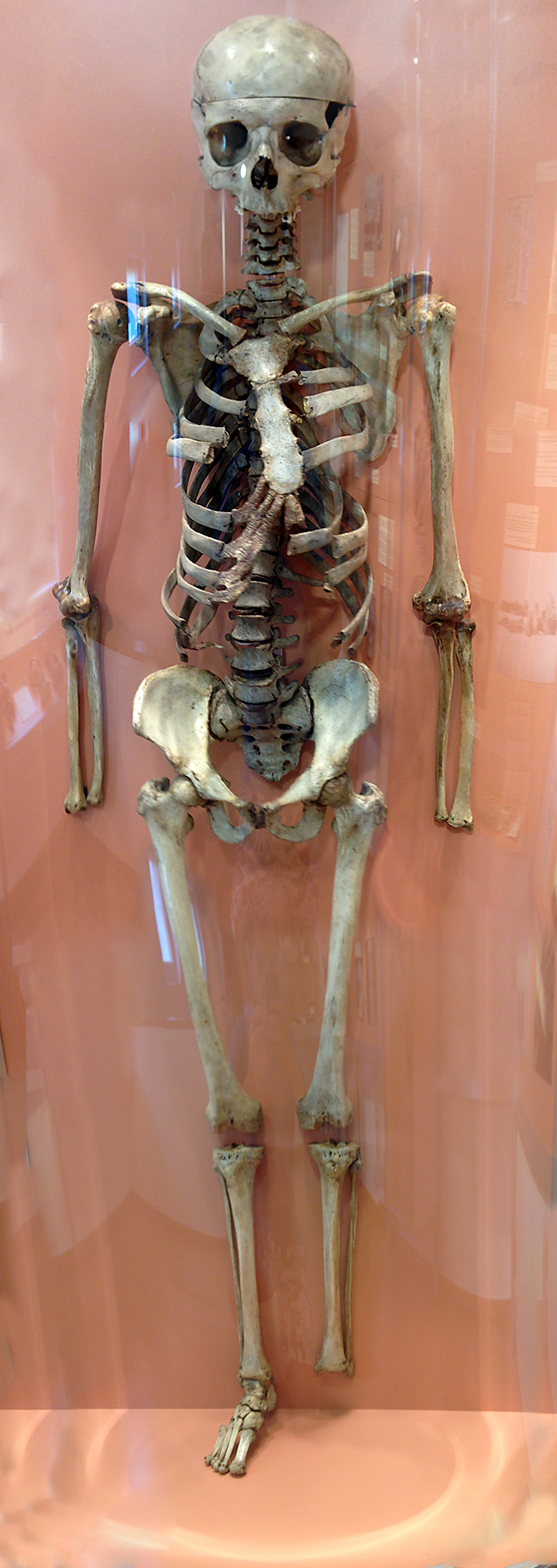 Skeleton of Jacob Karrer, constructed by Vesalius in 1543, in the Basel Vesalianum (Anatomisches Museum Basel). On the 12th of May, 1543, Jakob Karrer von Getweiler was executed in Basel, Switzerland. Reports say he was beheaded, although hanging was a more usual mode of execution. Karrer was a bigamist who attacked his legal wife with a knife after she discovered his second wife. According to a contemporary account, Karrer was a habitual criminal, and he left his wife grievously injured. Although she did not die, he was sentenced to death. After his death, Vesalius dissected Karrer, in front of an audience, than constructed an articulated skeleton with his bones. More details here